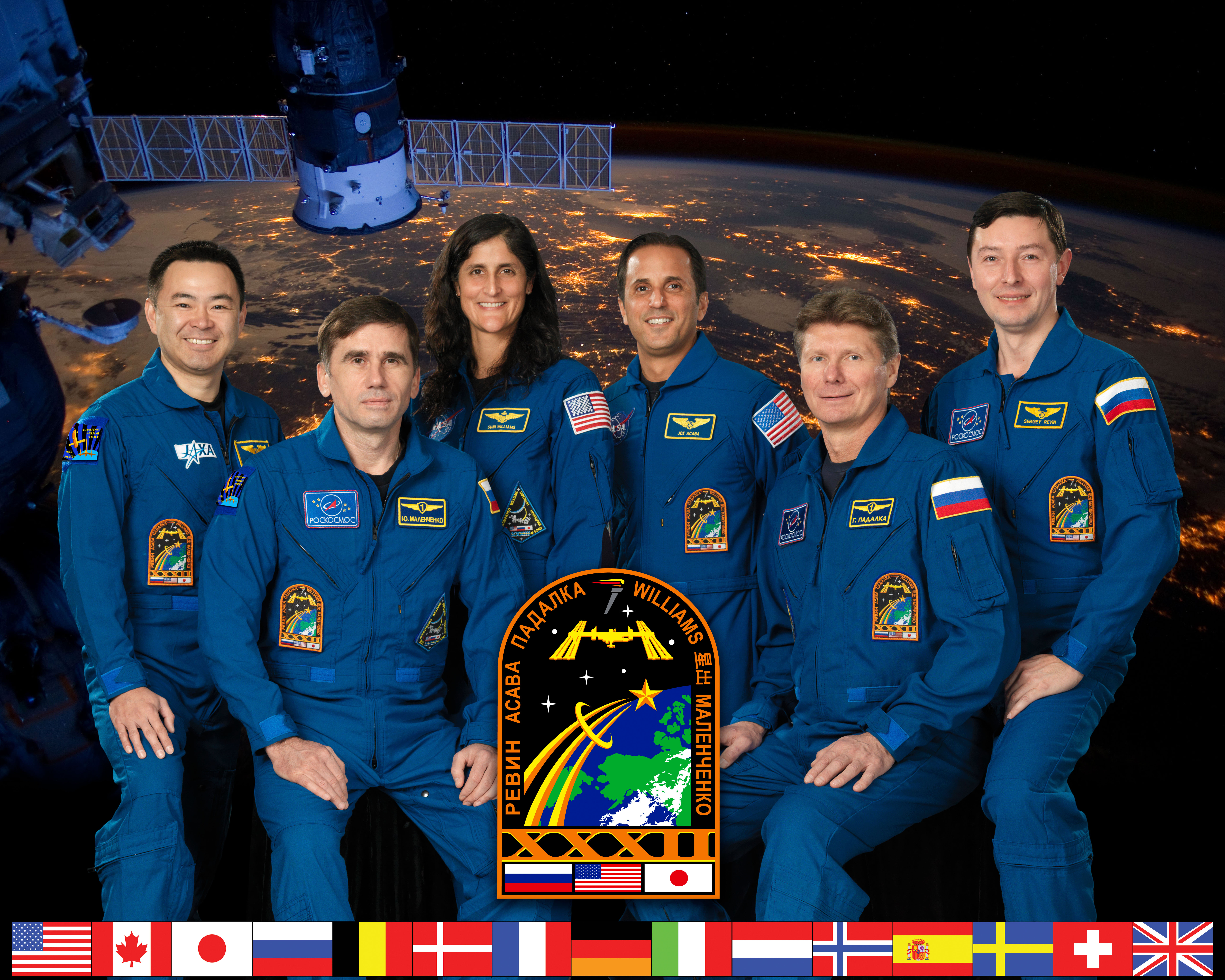 Expedition 32 crew members take a break from training at NASA's Johnson Space Center to pose for a crew portrait. Pictured from the left are Japan Aerospace Exploration Agency (JAXA) astronaut Akihiko Hoshide, Russian cosmonaut Yuri Malenchenko, NASA astronaut Sunita Williams, NASA astronaut Joe Acaba, all flight engineers; Russian cosmonaut Gennady Padalka, commander; and Russian cosmonaut Sergei Revin, flight engineer. The background picture is ISS030-E-078095.